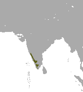 Jerdon's Palm Civet (Paradoxurus jerdoni) range